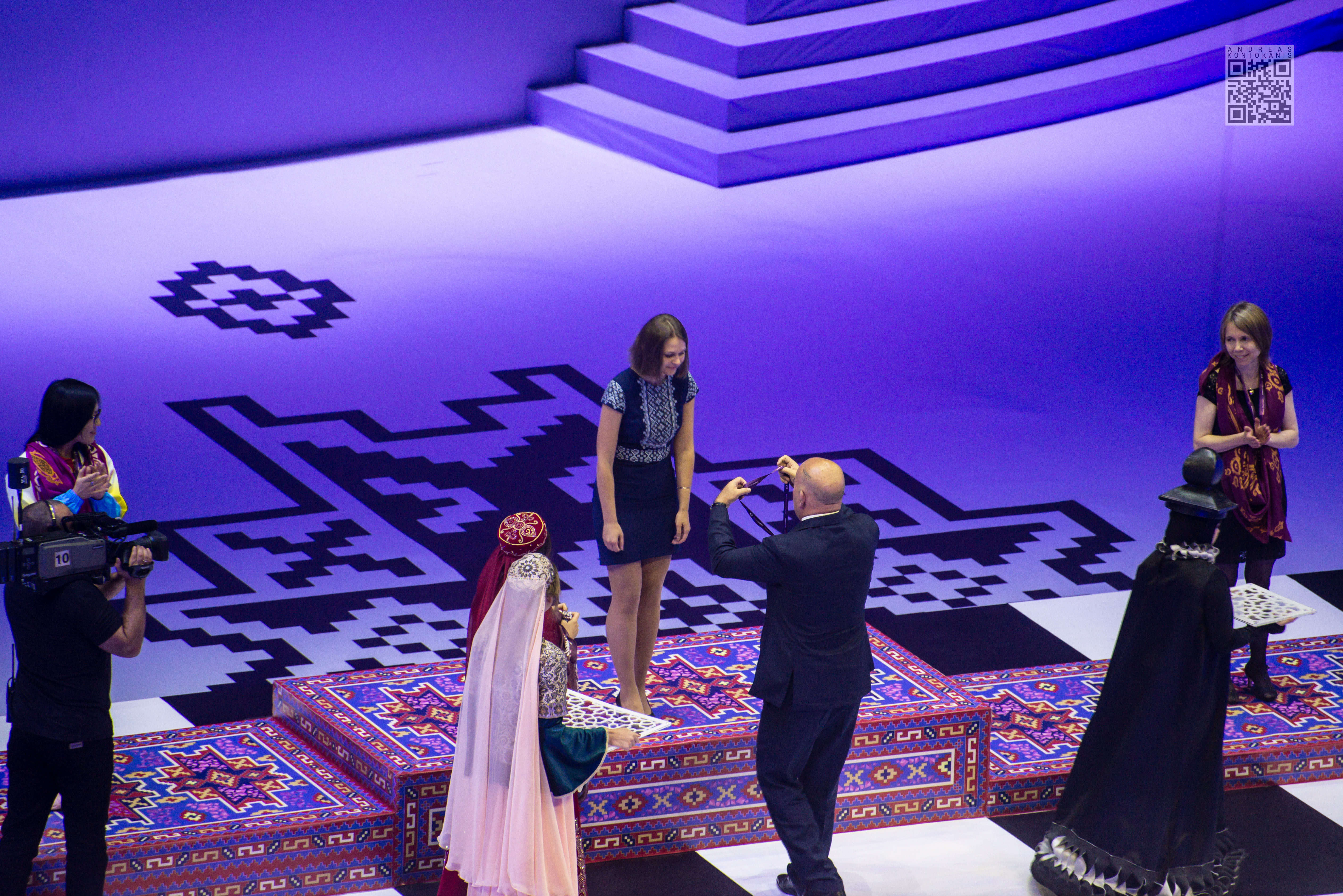 GM Muzychuk Anna receives her medal